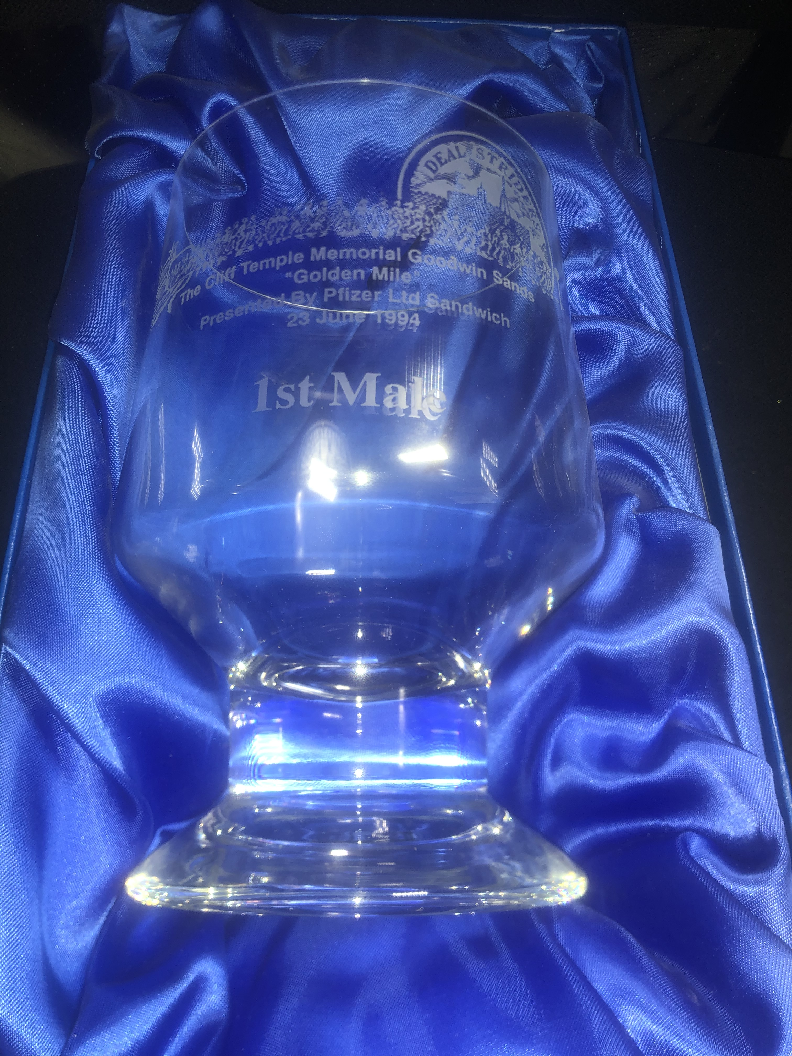 Cliff Temple Goodwin Sands Memorial Award 1994 1st Place